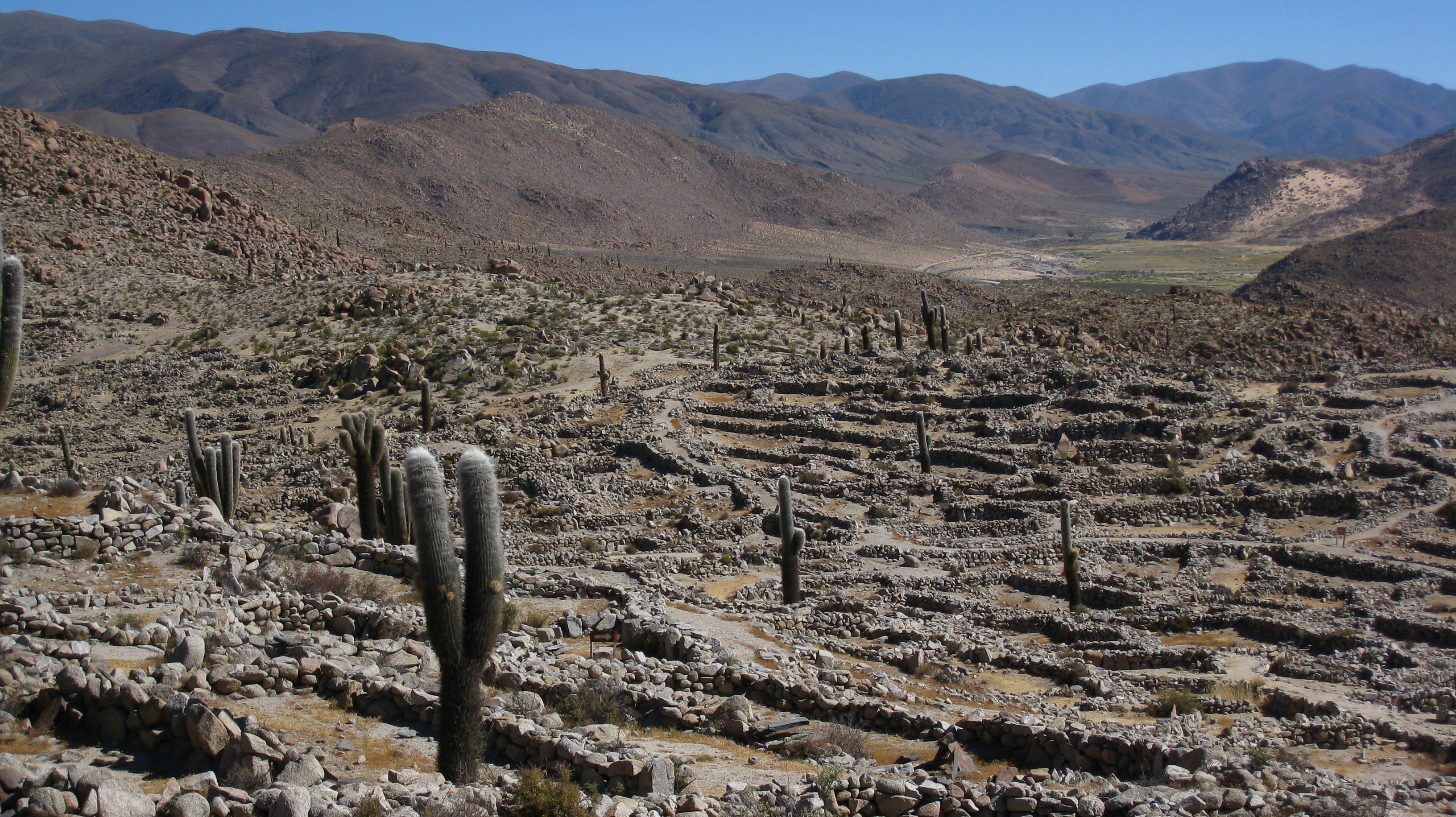 These are the ruins that are found along the Train to the Clouds route. The Tastil ruins are pre-incan and was believed to be populated between 1360 and 1440 and about 2000 people lived there.